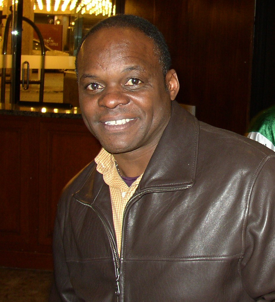 Richie Hall, during 2007's w:95th Grey Cup celebrations when he was Defensive Co-ordinator of the Saskatchewan Roughriders.